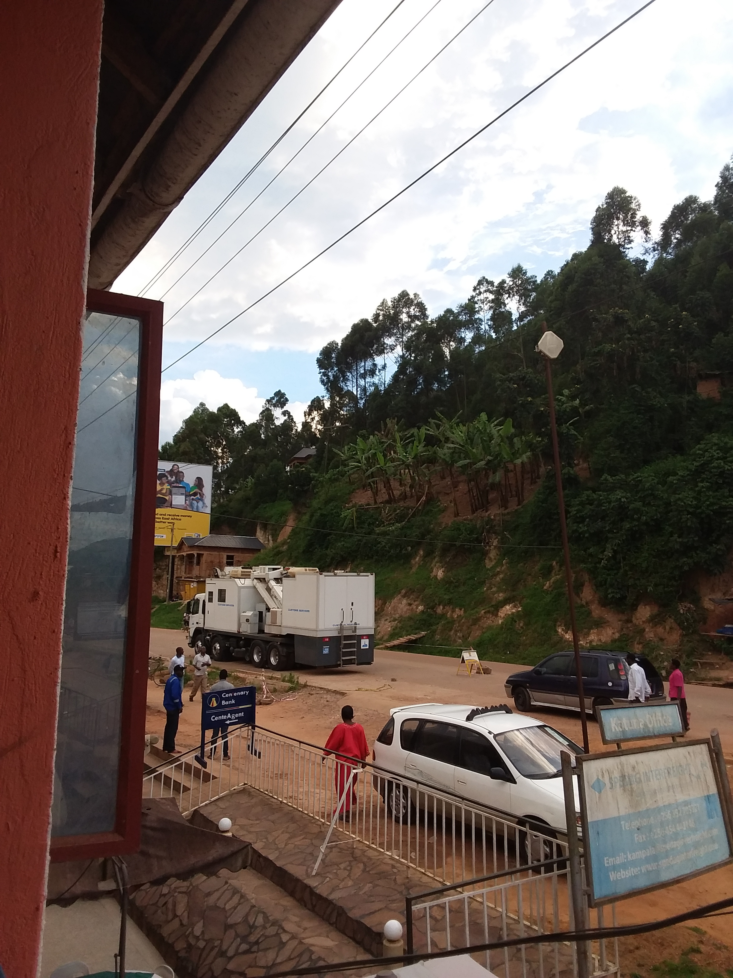 This is an image with the theme "Africa on the Move or Transport" from: Uganda